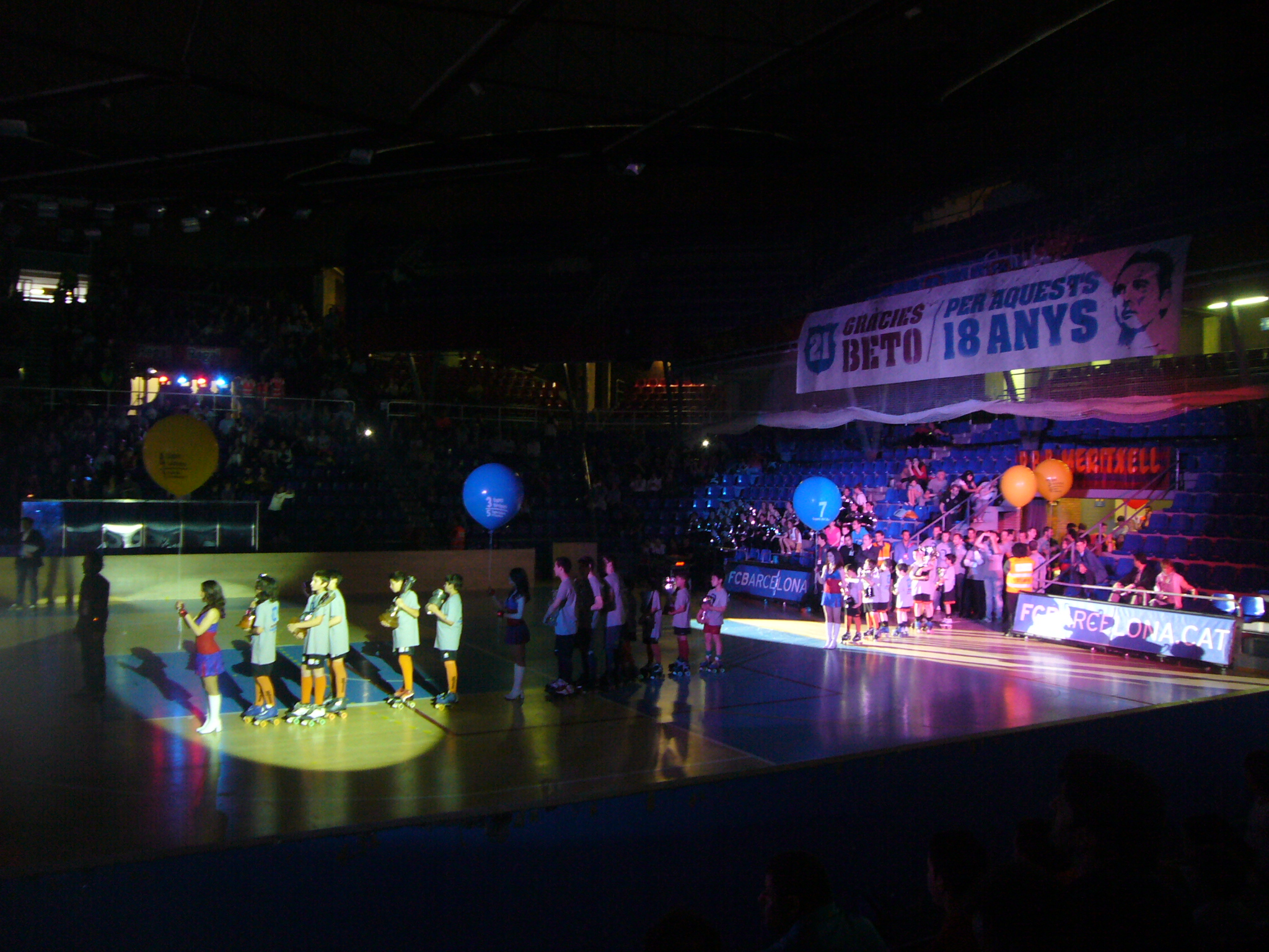 Tribute to Beto Borregán. May 5, 2013